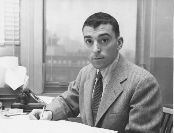 Edward DeBlasio in New York, 1960